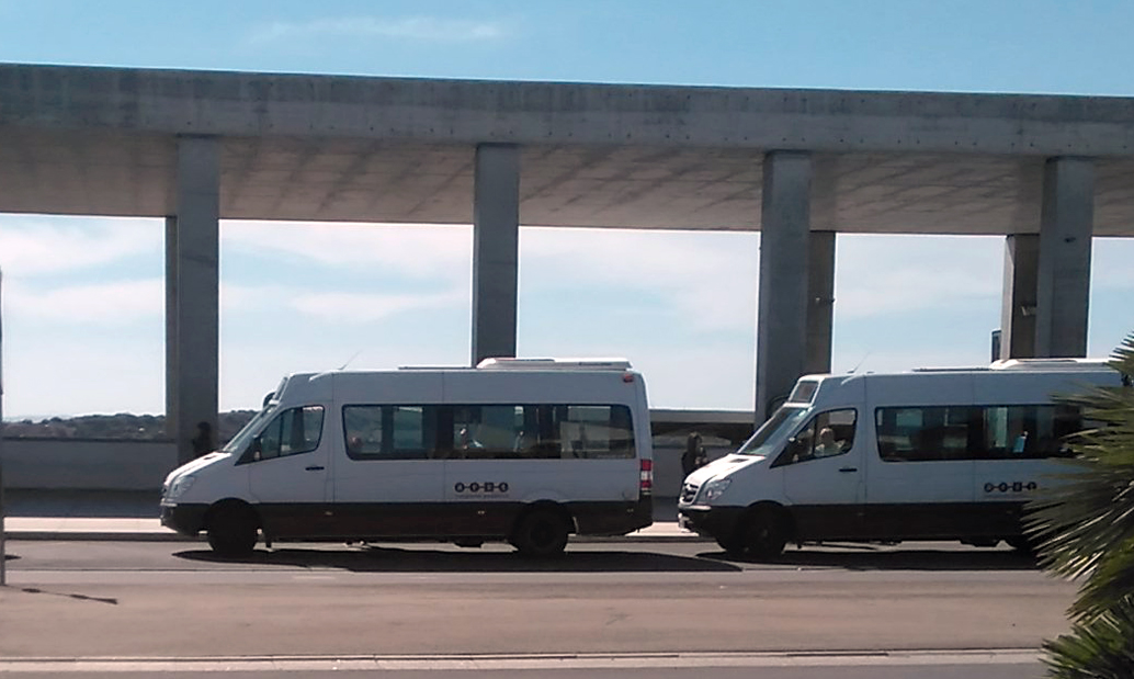 VDL MidCity buses owned by ARST, based on Mercedes Benz Sprinter units, used in Carbonia, Sardinia, Italy for the city bus service, here waiting in front of the train and bus station of Carbonia Serbariu